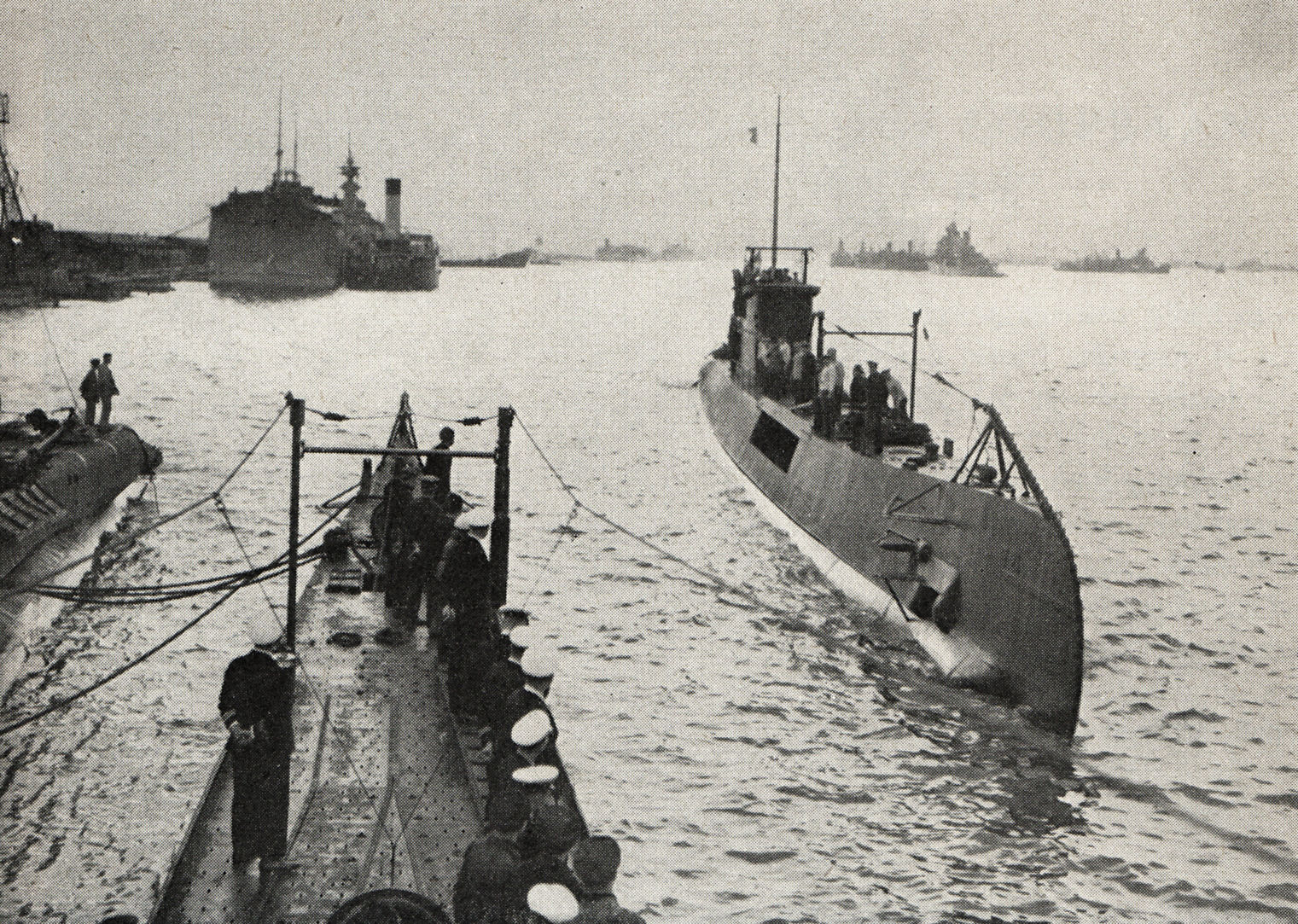 HNLMS O 21 entering the harbor Gibraltar.